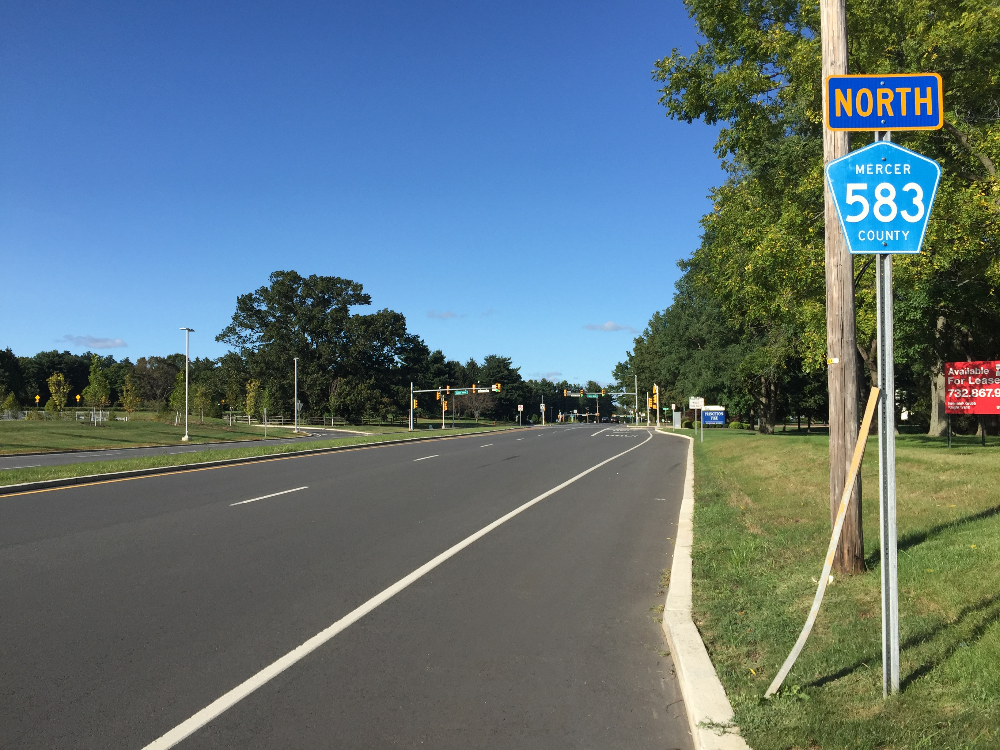 View north along Princeton Pike (Mercer County Route 583) at Lenox Drive in Lawrence Township, Mercer County, New Jersey